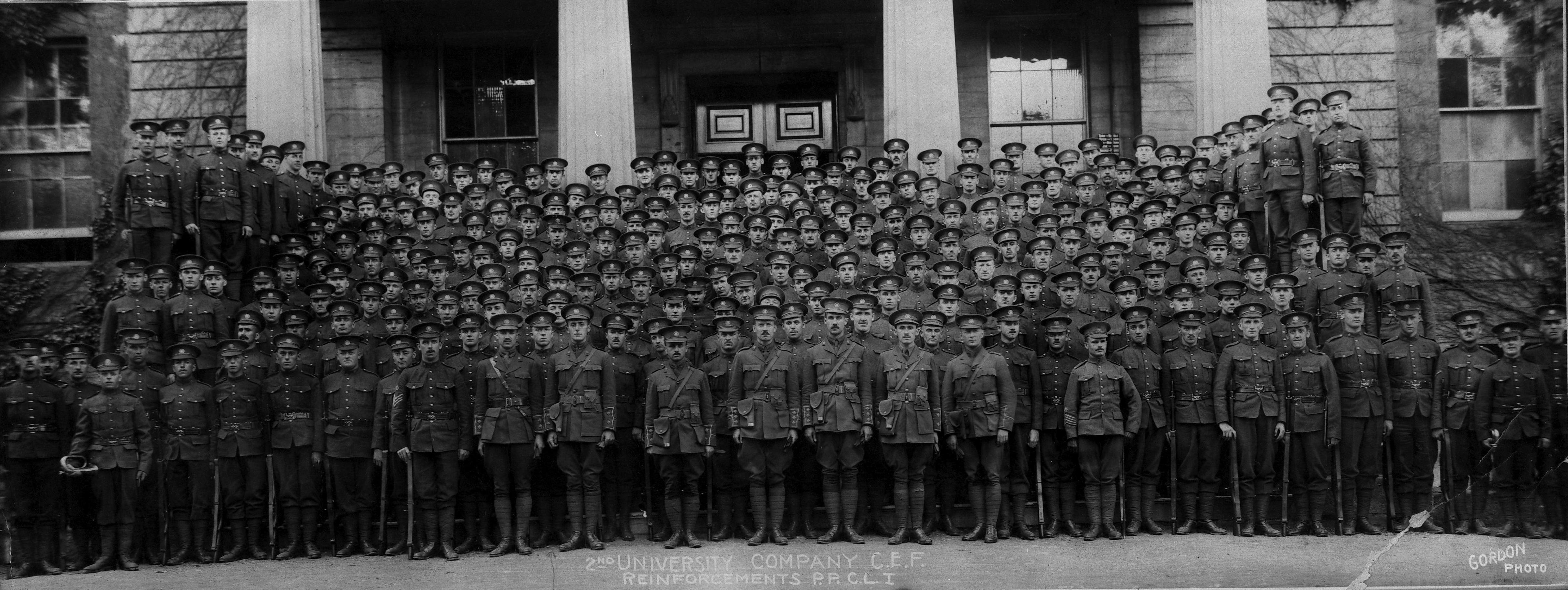 This photo was taken at McGill University in Montreal in 1915 before the departure of the 2nd University Company for France. The Company reinforced Princess Patricia's Canadian Light Infantry on the Somme in October 1915